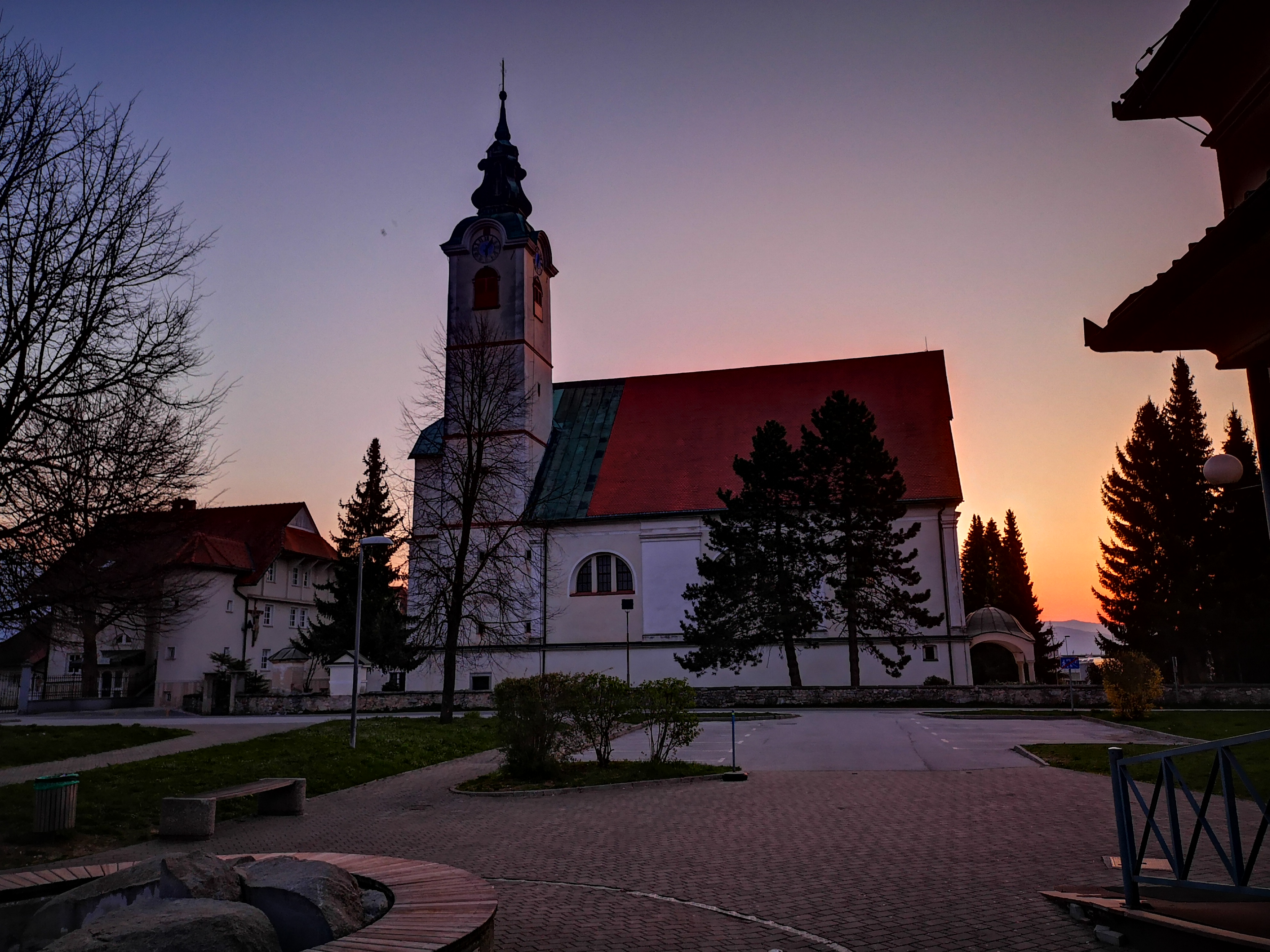 Stražišče Church Kranj, Slovenija